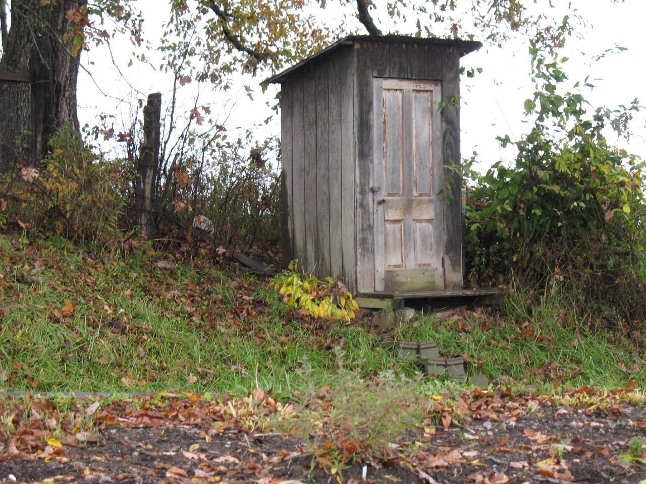 Outhouse near Miller's Bakery